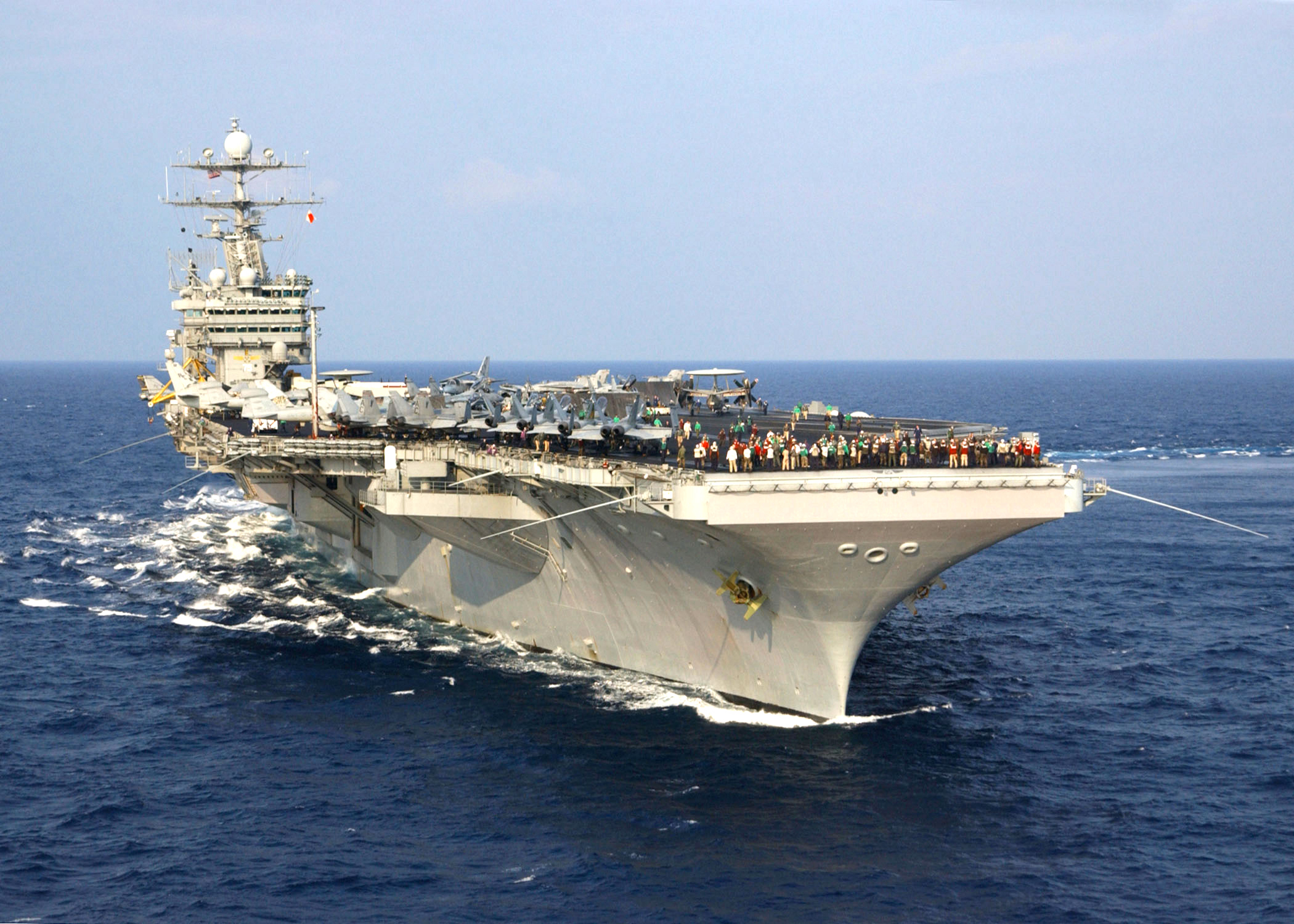 Mediterranean Sea (Mar. 11, 2003) -- Crew members gather on the ship’s bow to participate in a foreign object damage (FOD) walk-down on the flight deck of nuclear powered aircraft carrier USS Harry S. Truman (CVN 75) in preparation for flight operations. Truman and her embarked Carrier Air Wing Three (CVW-3) are currently deployed conducting missions in support of Operation Enduring Freedom. U.S. Navy photo by Photographer’s Mate 3rd Class Christopher B. Stoltz. (RELEASED)